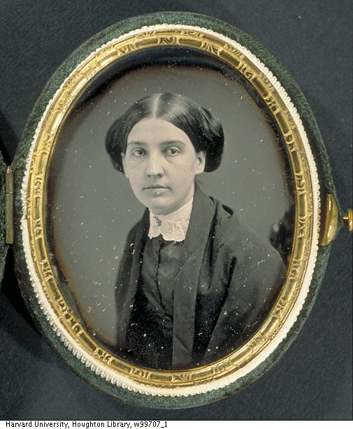 A daguerreotype of a young Susan Dickinson, with frame (sister-in-law of Emily Dickinson). bMS Am 1118.99b (29.4), Dickinson Family Photographs, Houghton Library, Harvard University.